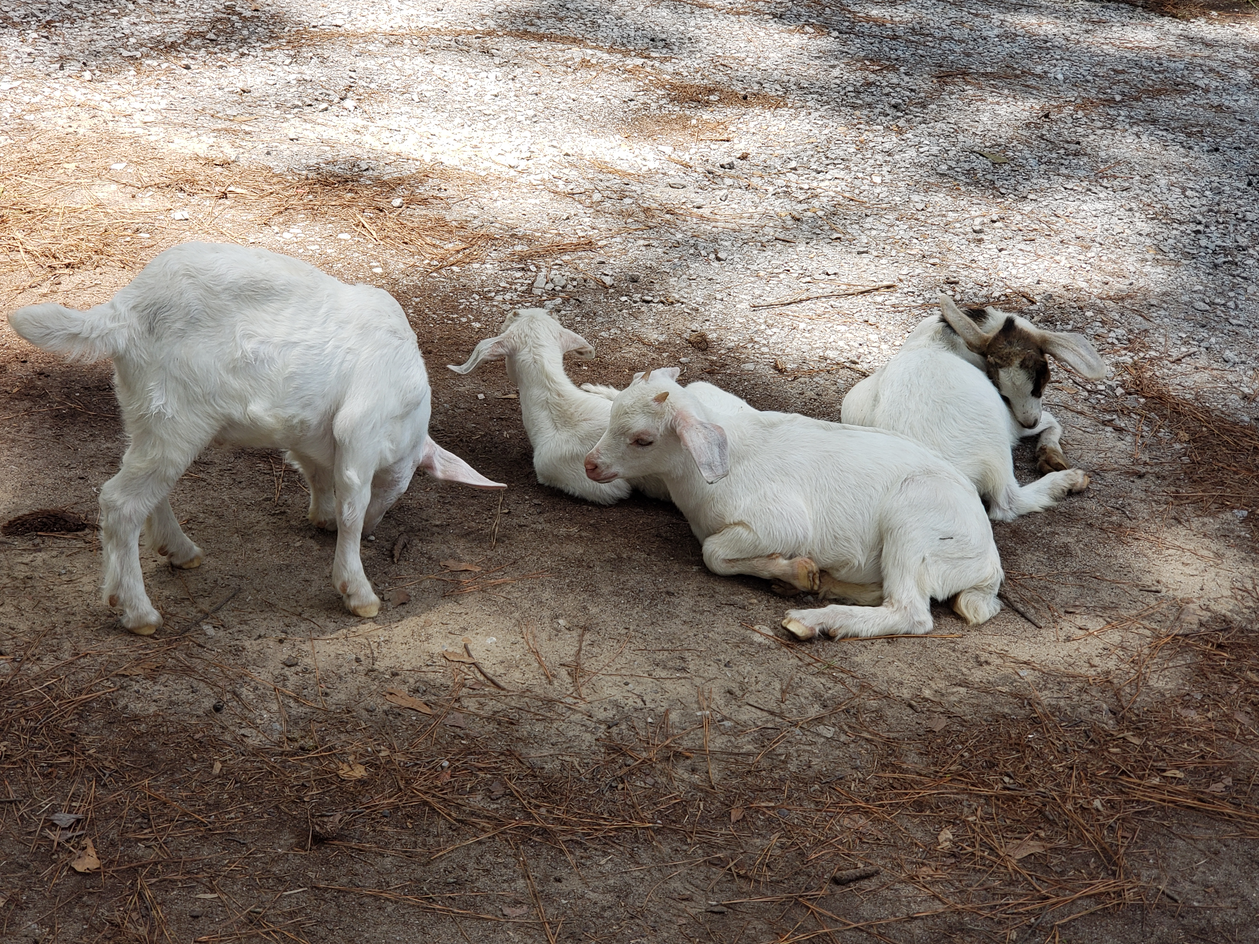 Domesticated goats from Jackson Lake Island resting on the side of the road in the shade